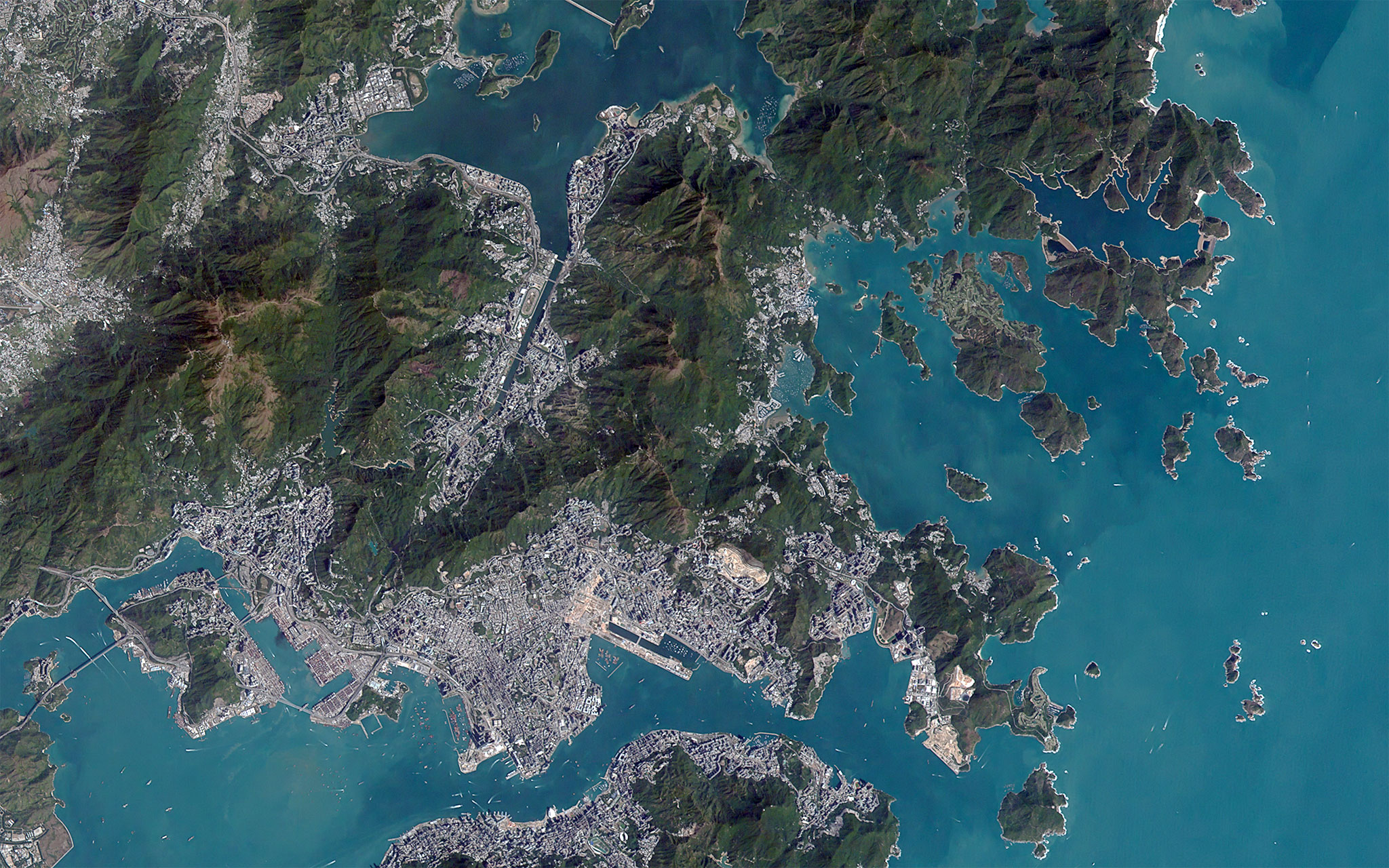 Hong Kong, China, as viewed by Hodoyoshi-1 satellite.